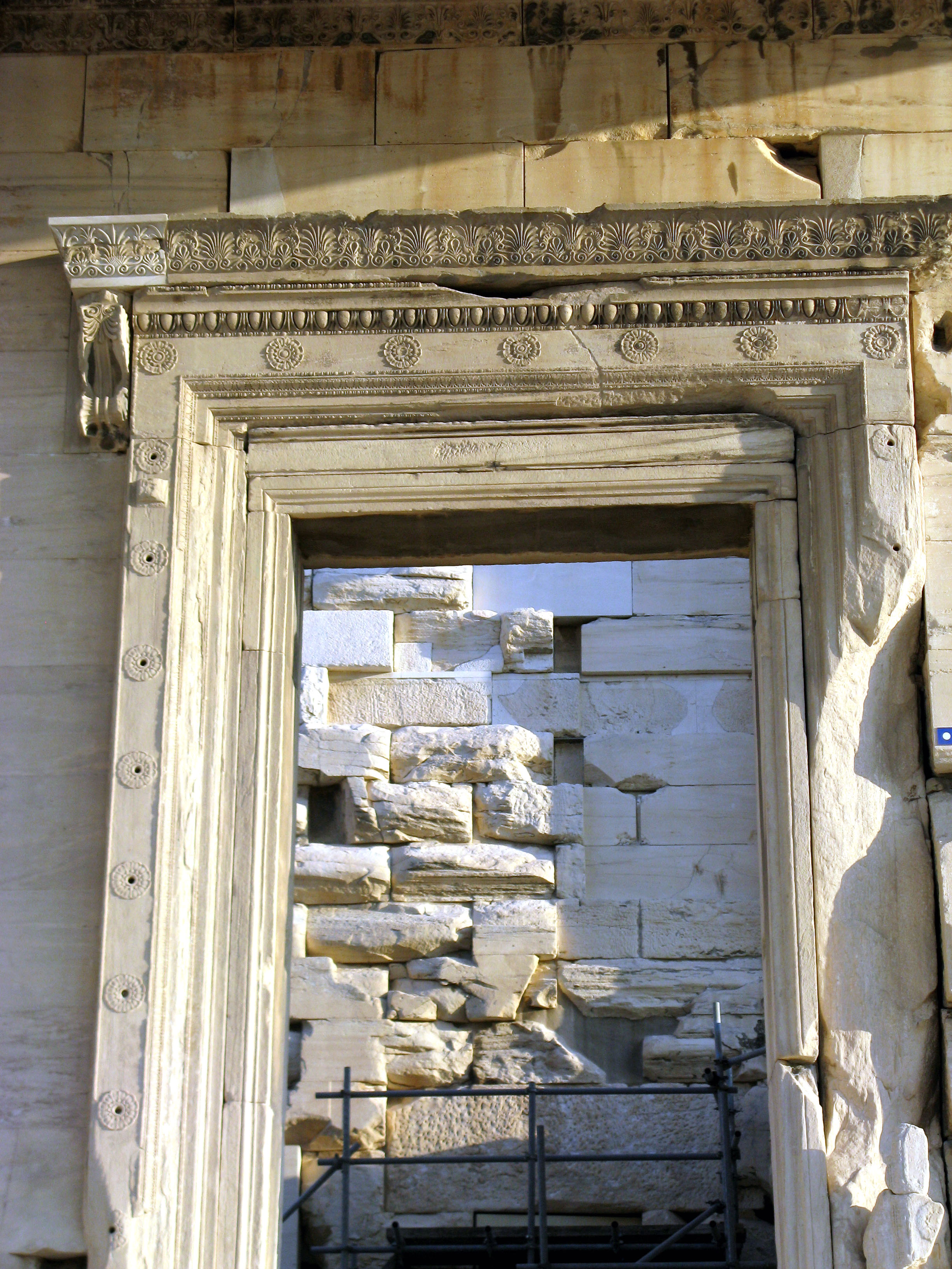 Erechtheum, entrance arc, Athens Acropolis